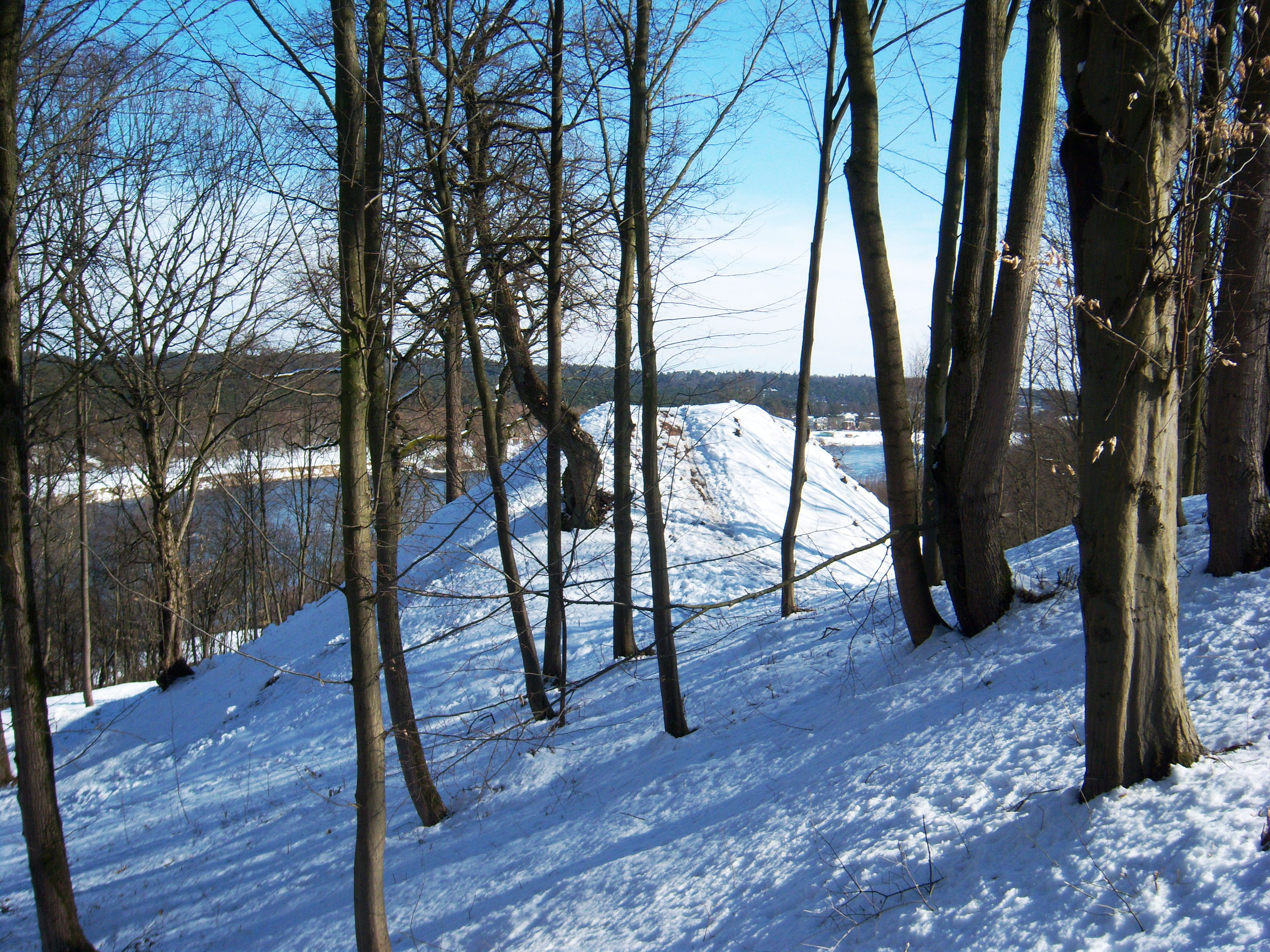 Aukštieji Šančiai hillfort, Kaunas, Lithuania